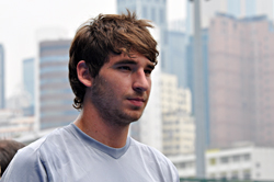 Peter Kurucz of West Ham United